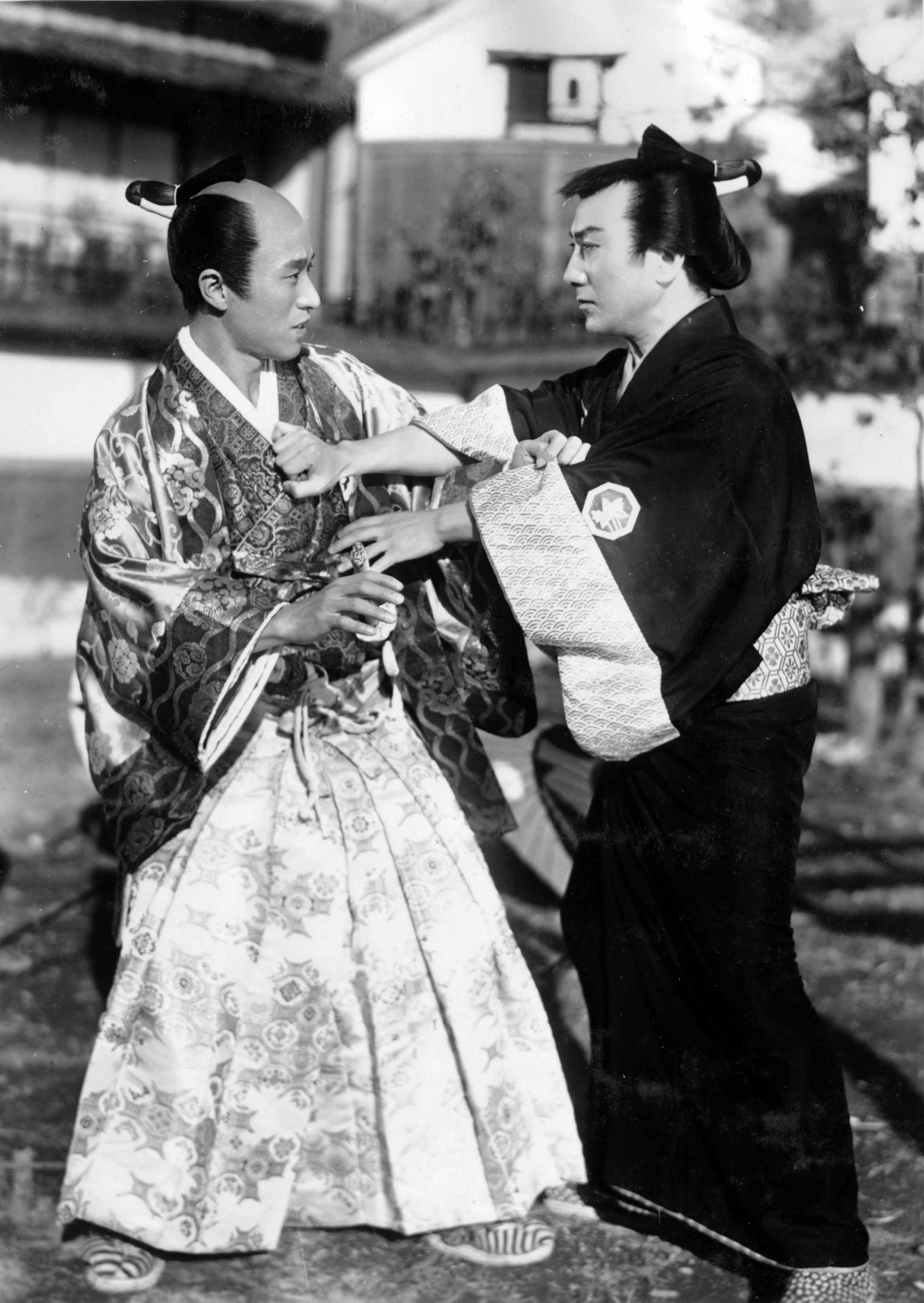 Dick Mine and Chiezō Kataoka in Oshidori utagassen (鴛鴦歌合戦) directed by Masahiro Makino - 1939